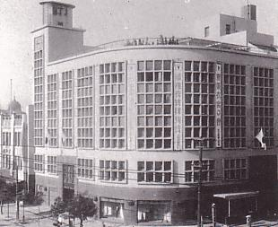 Chojiya Department Store